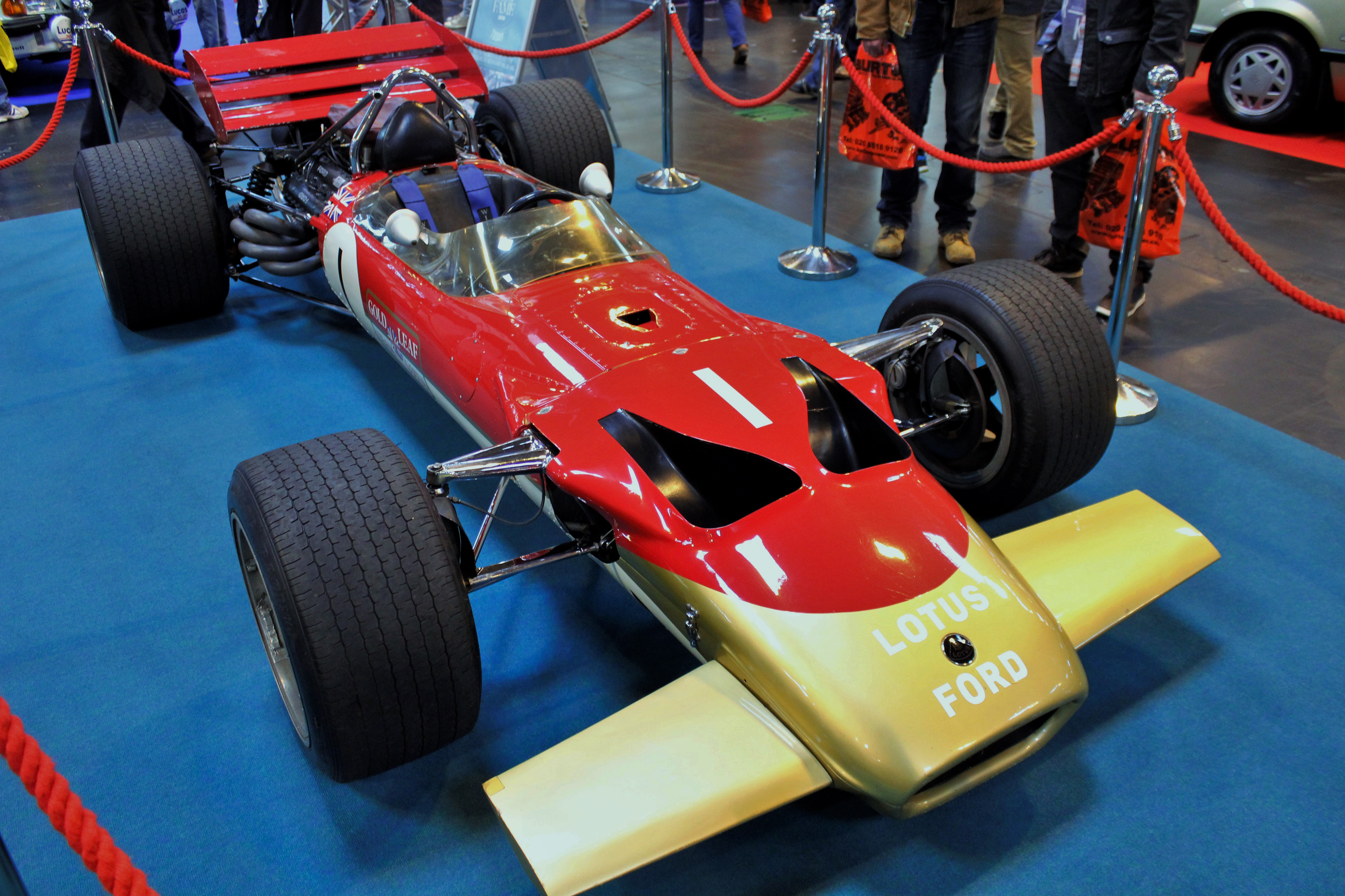 NEC Classic car show 2015